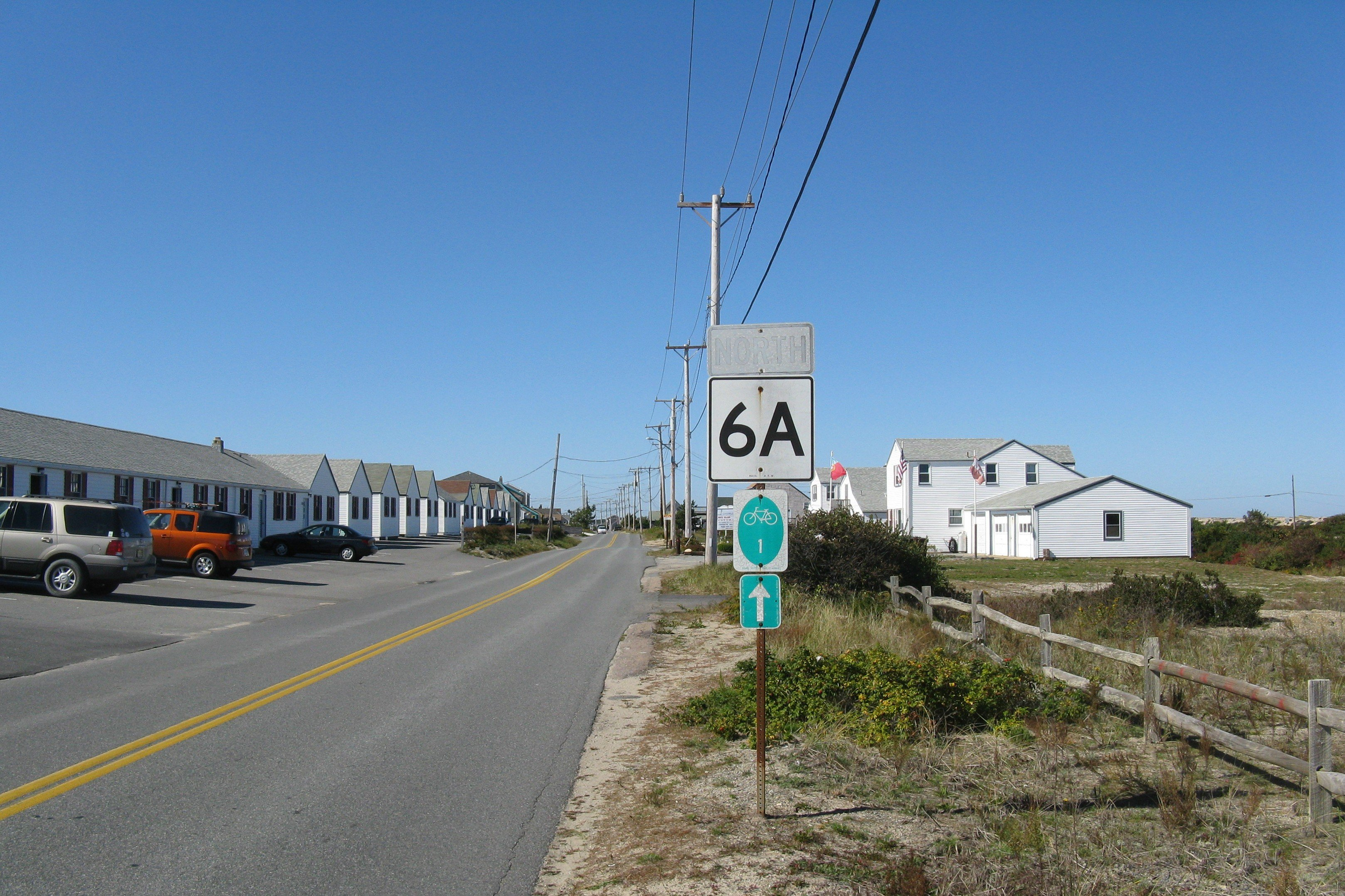 Claire Saltonstall Bikeway on Massachusetts Route 6A northbound, Truro Massachusetts, October 2008